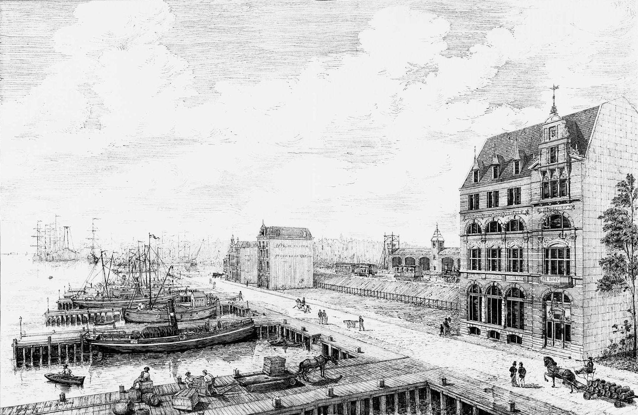 Theodorus Sanders and Hendrik Petrus Berlage (architects). Volkskoffiehuis De Hoop [café], De Ruijterkade, Amsterdam. 1883-1884.